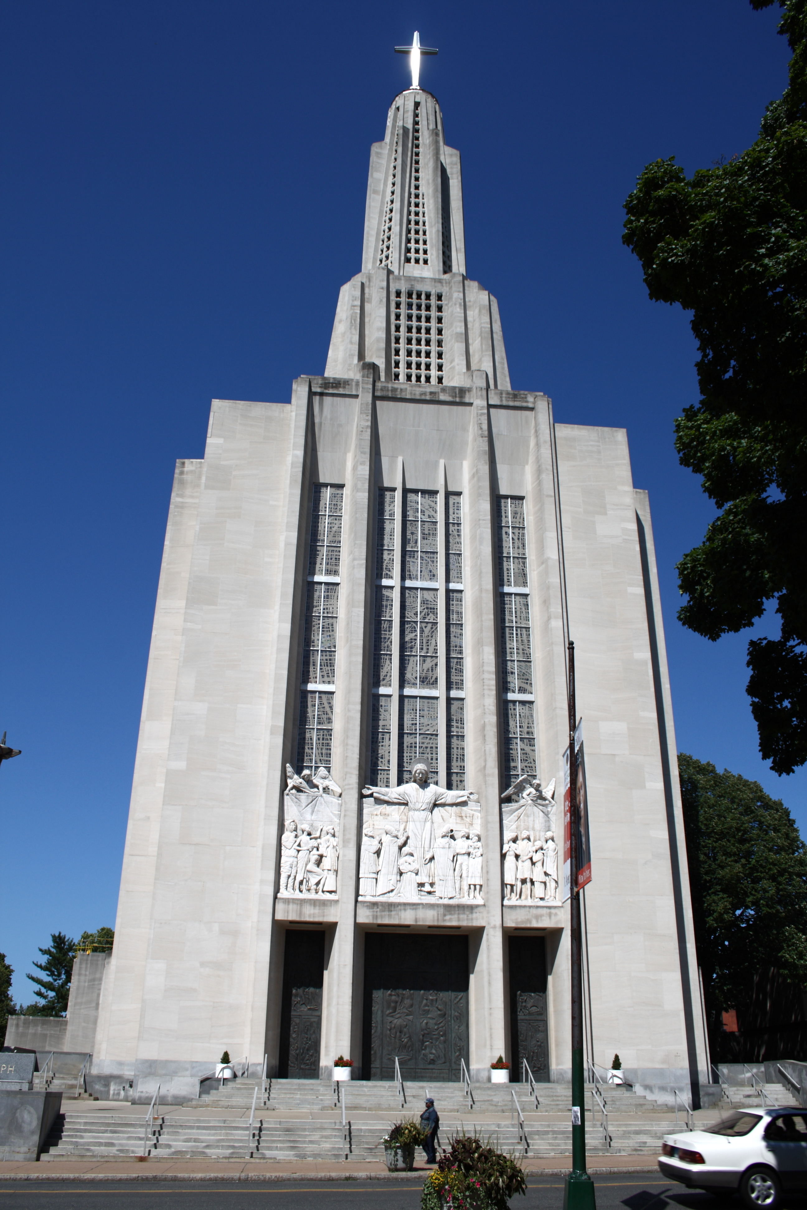 Cathedral of Saint Joseph in Hartford, Connecticut - Google Maps - Google Earth